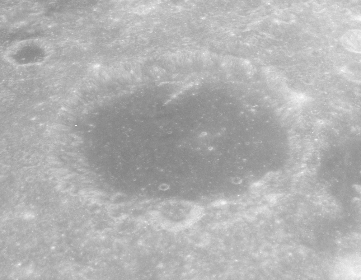 Firmicus, on the moon.